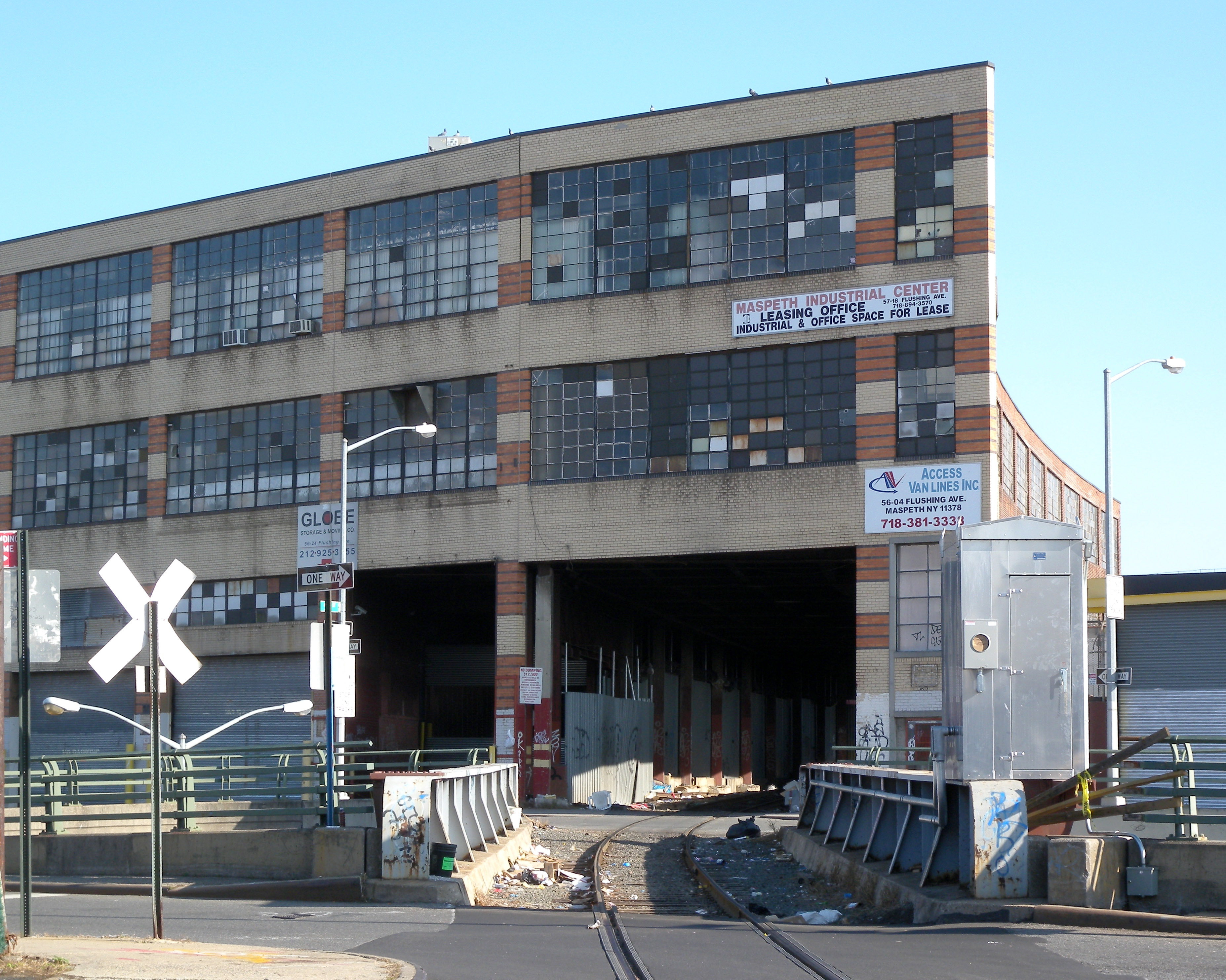 Looking east as Bushwick Branch crosses over Flushing Avenue and goes under Maspeth Industrial Center on a sunny midday.